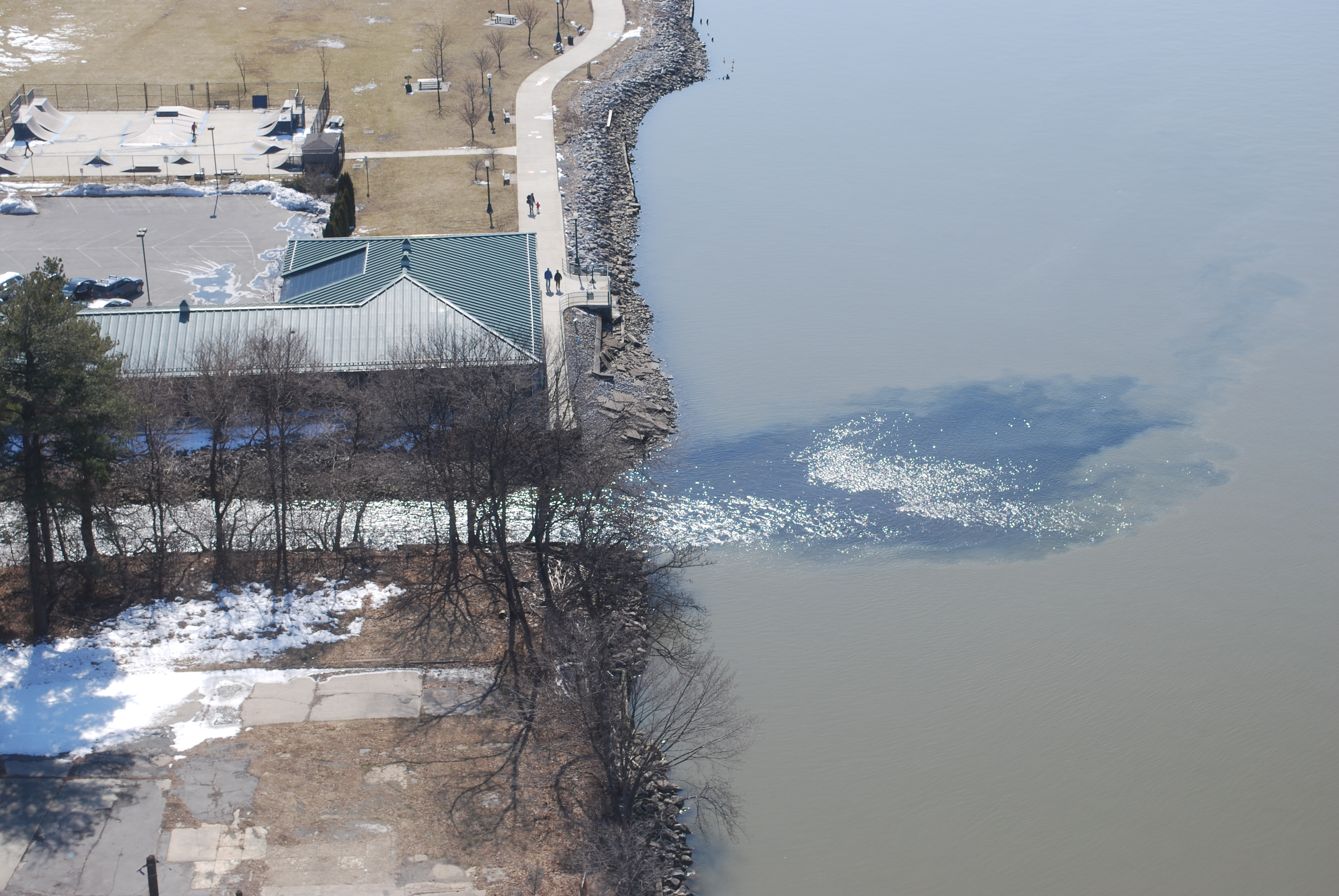 Convergence of the Fall Kill into the Hudson River in Poughkeepsie, New York. Seen from the Walkway Over the Hudson.